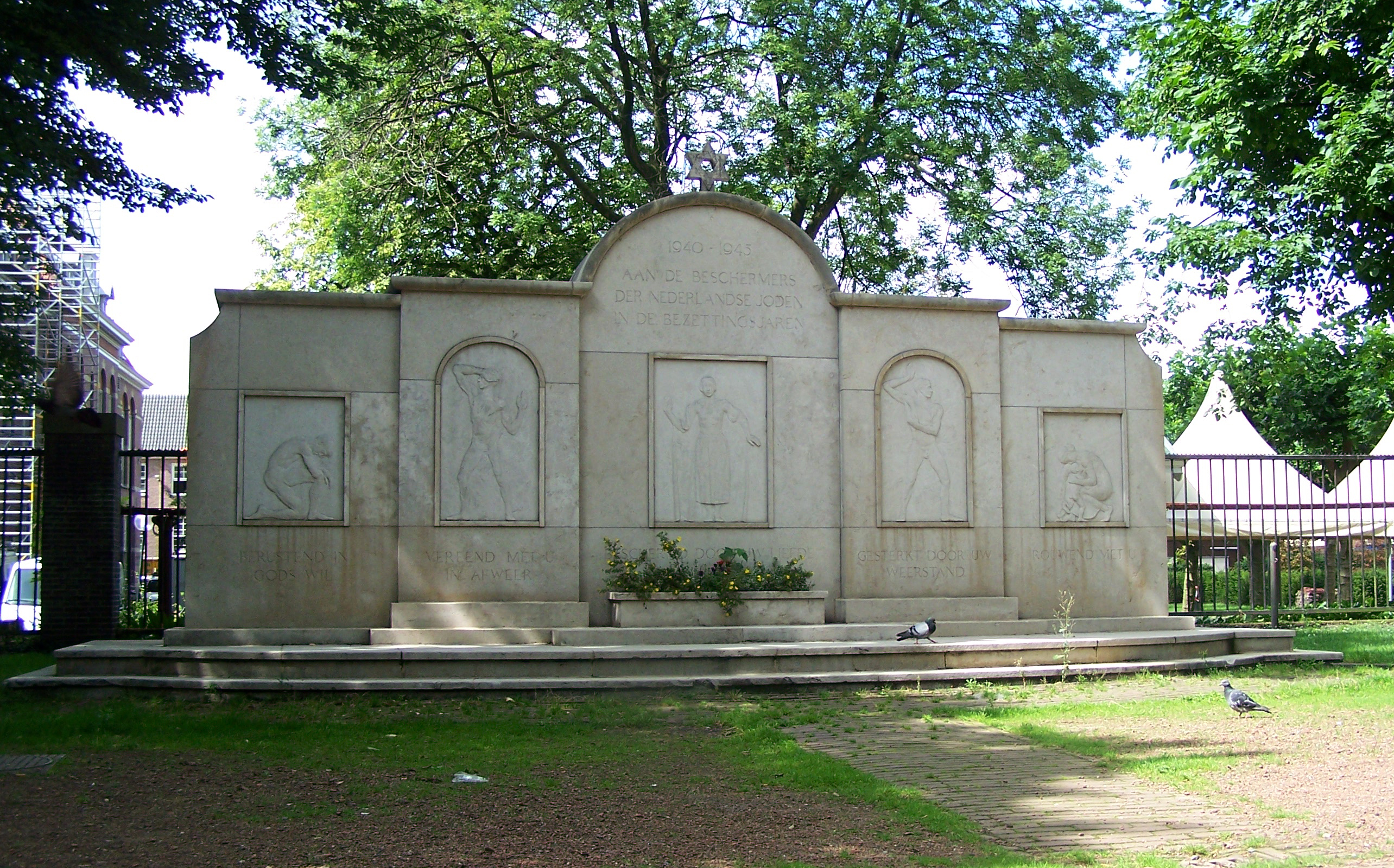 Monument "Monument van Joodse Erkentelijkheid" by Johan Gustaaf Wertheim in 1950. Placed at the Weesperstraat/Amstelhof in Amsterdam. The monument is a gift for those who helped the jews in Amsterdam survive the second world war.